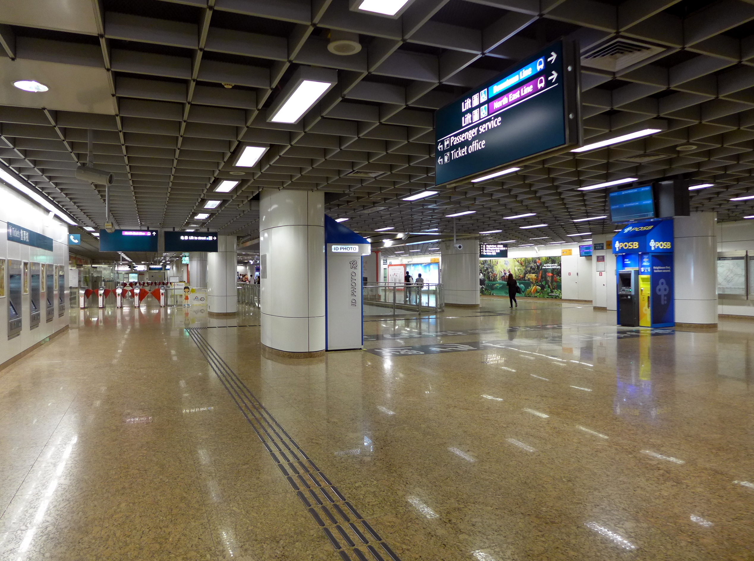 Chinatown MRT Station Concourse